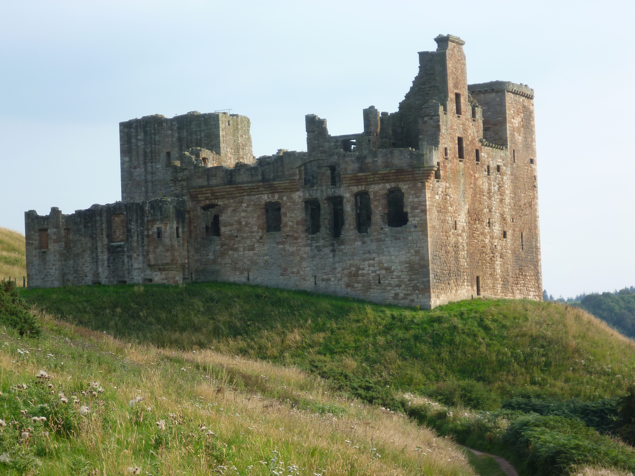 Crichton Castle, near Pathhead, Midlothian